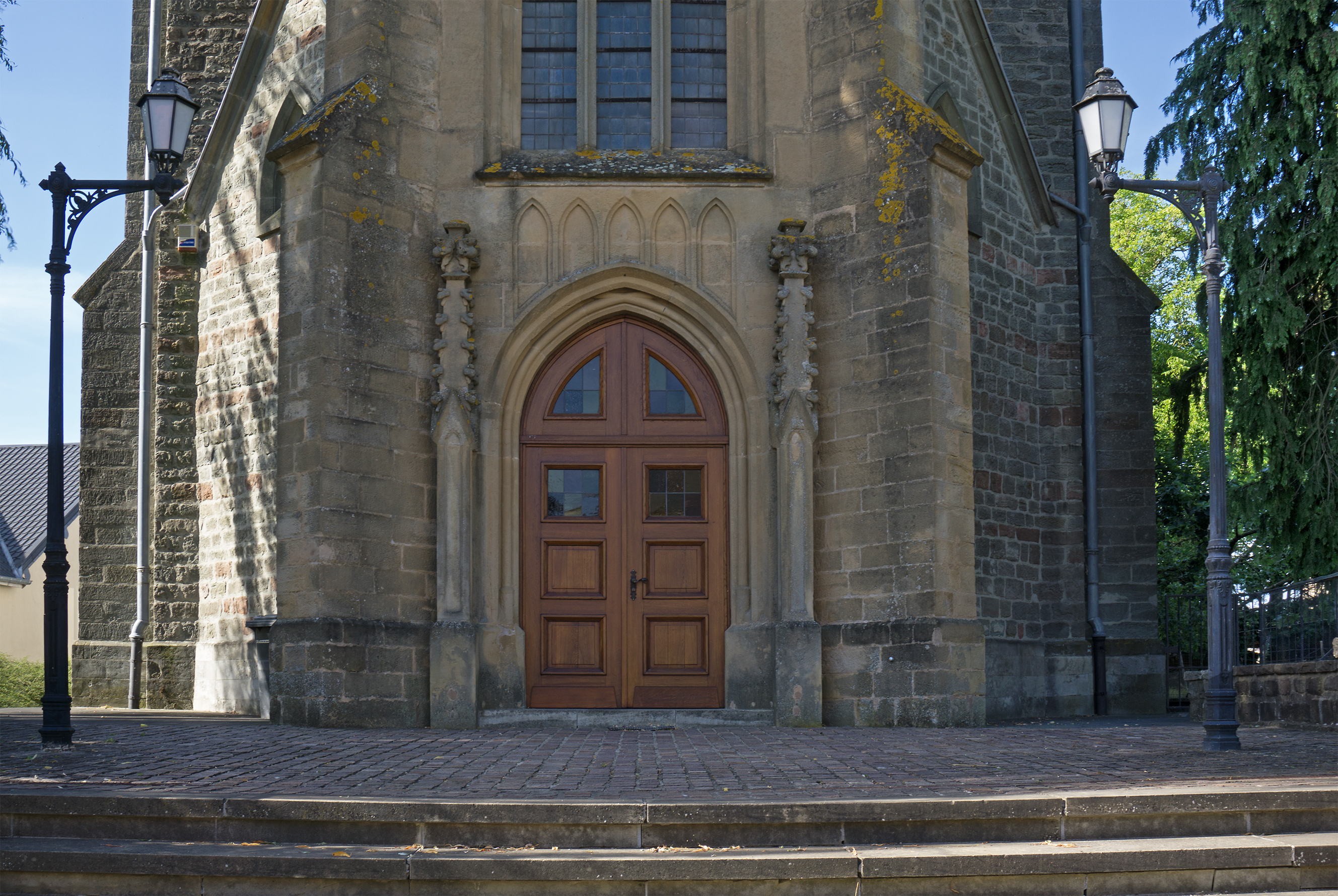 Church of Stegen